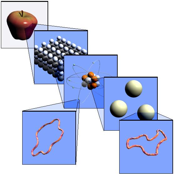 Structure of matter (string theorie)